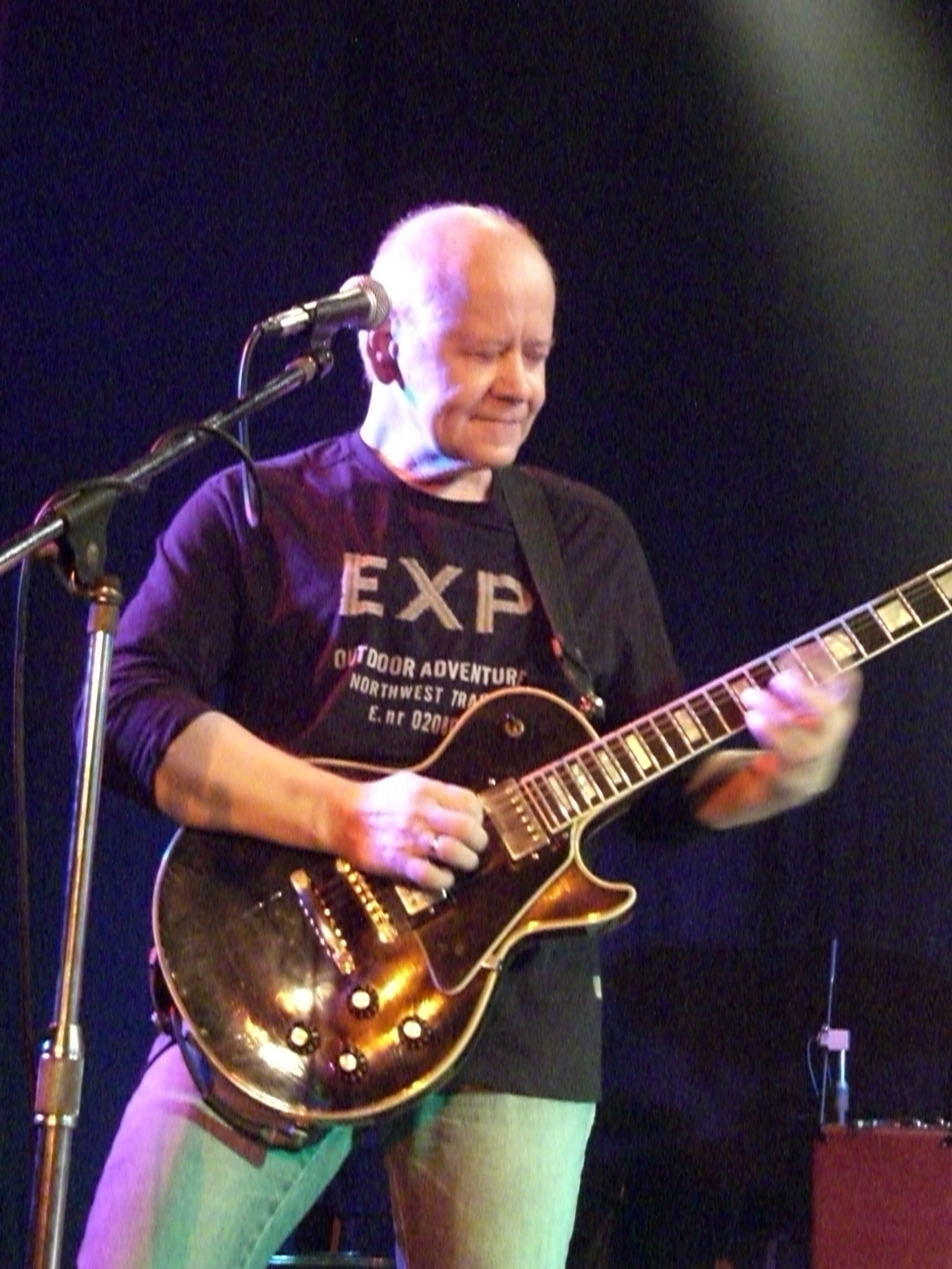 Czech big beat music grup Blue Effect in rock club Divadlo pod Čarou, Písek, 17.2.2007